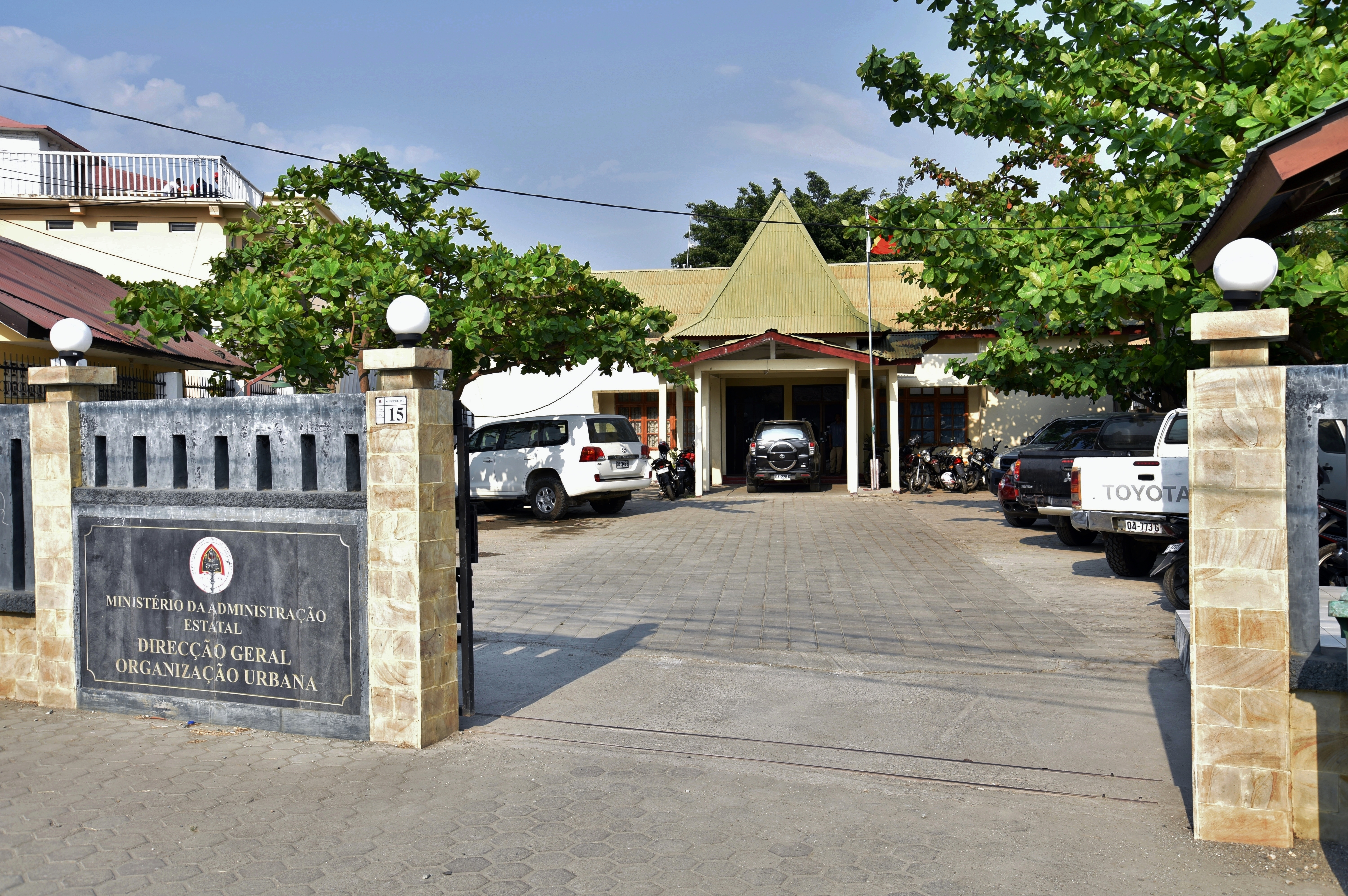 The office of the Ministério da Administração Estatal (Ministry of State Administration), Direção Geral Organização Urbana (General Directorate of Urban Organization), Dili, East Timor